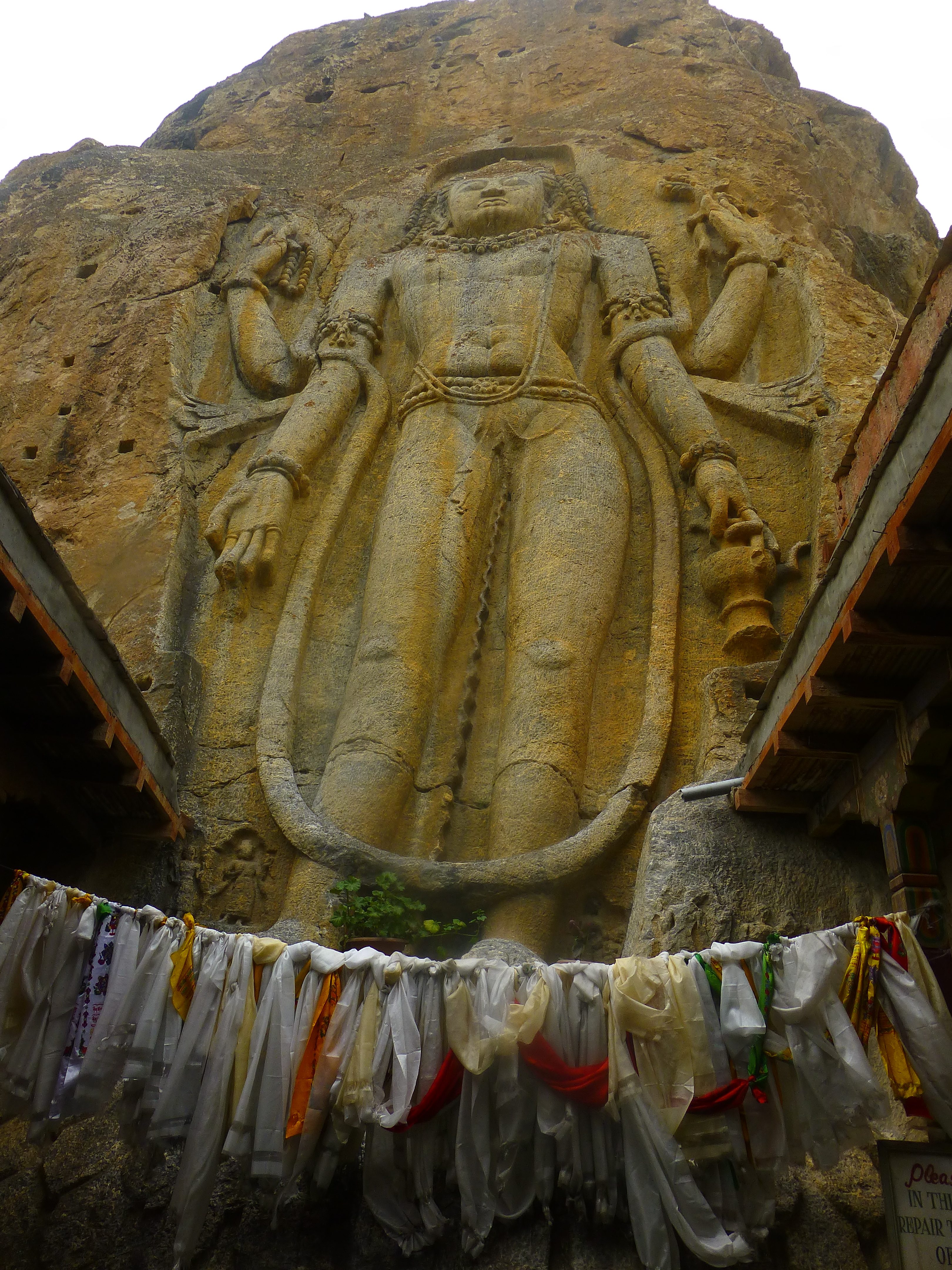 Rock Cut figure of Maitreya Buddha at Mulbekh (Mulbag) Village in Kargil District